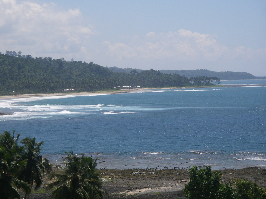 Simeulue Beach Aceh.